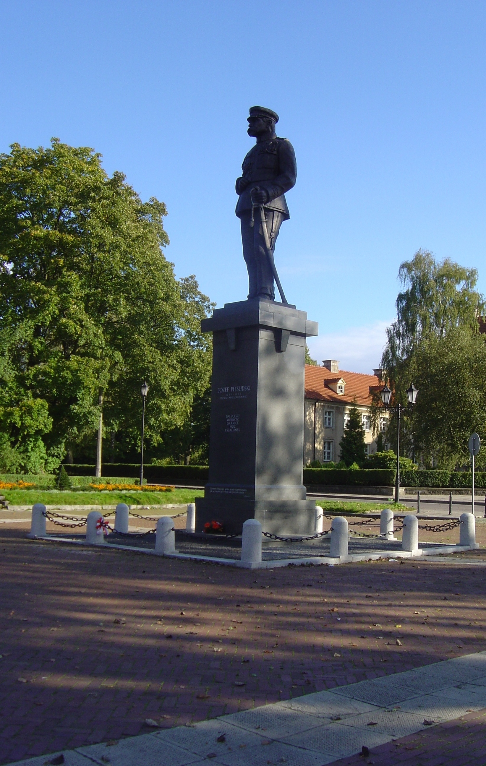 monument of Józef Piłsudski in Koszalin, Poland.